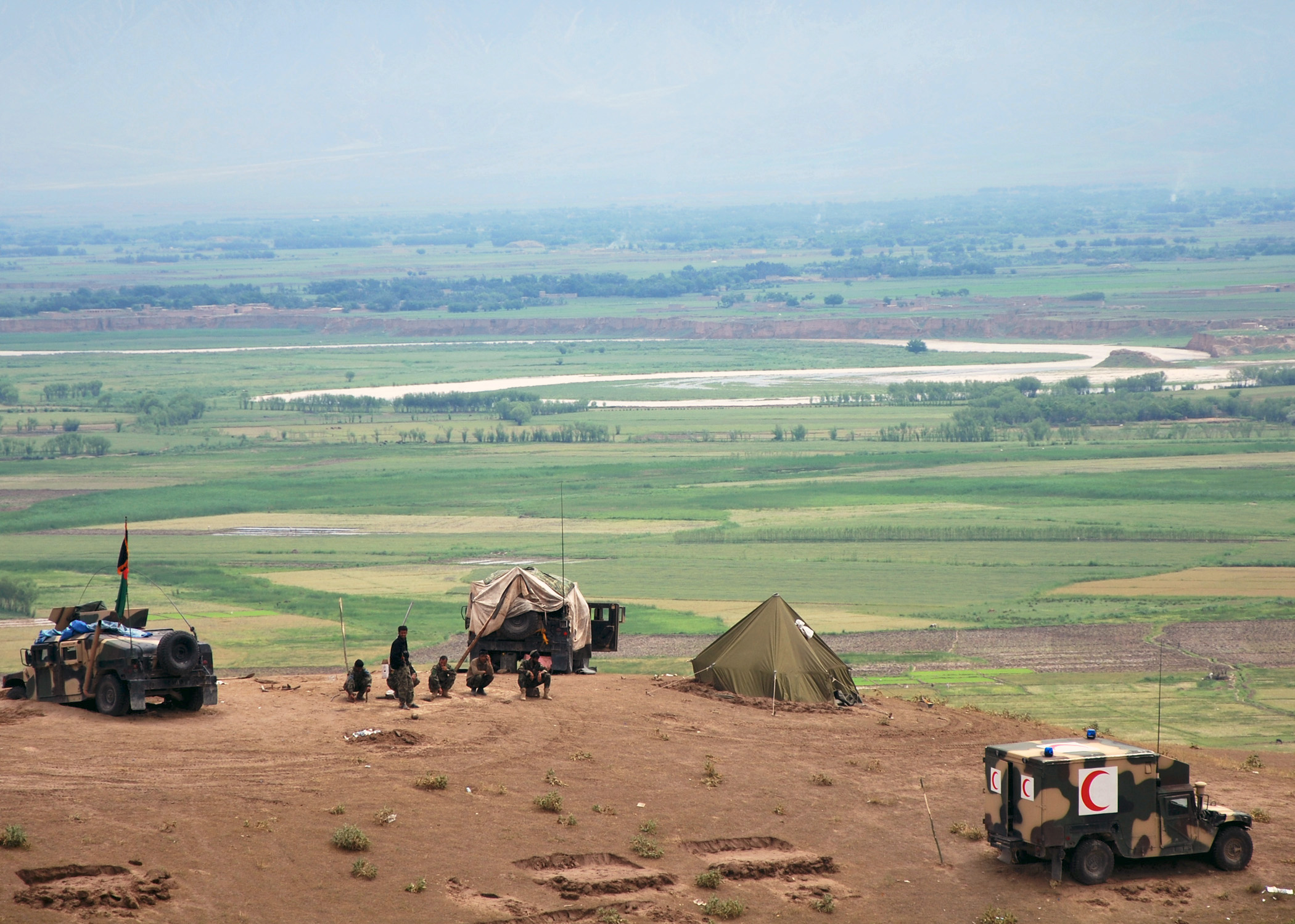 Afghan national army 209th Corps soldiers prepare for upcoming joint operations against insurgents in Baghlan province. (Photo ID: 277950)